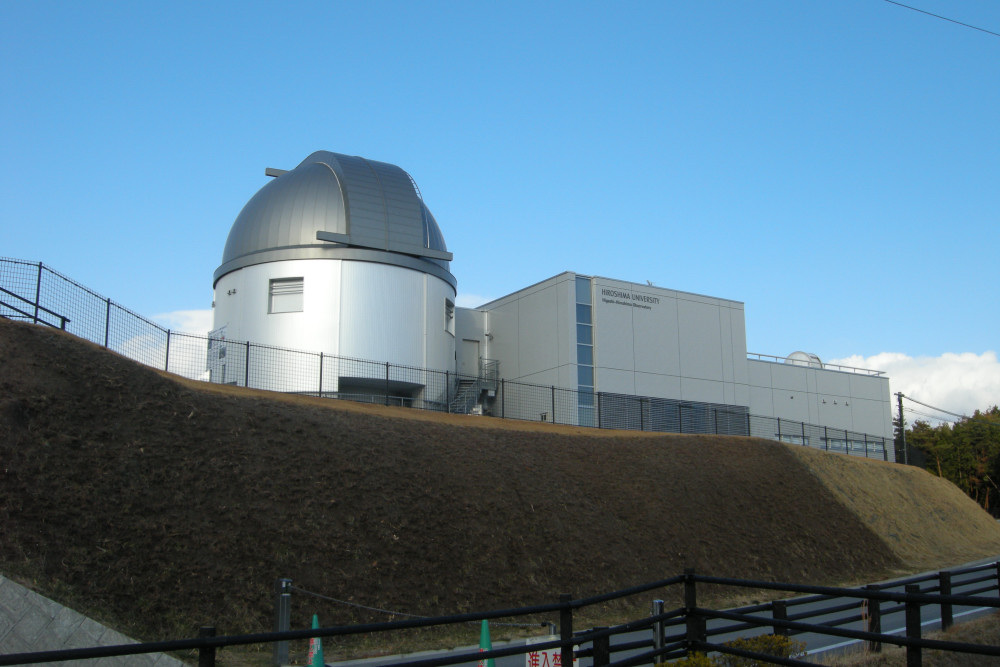 東広島市天文台 Higashi-Hiroshima Astronomical observatory